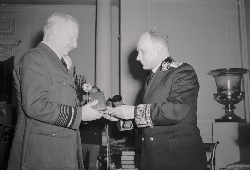 Soviet Presentation at the Soviet Embassy, London, England, UK, 1944 Air Chief Marshal Sir Arthur Harris (left) receives the 1st (the highest) Degree of the Order of Suvorov from the Soviet Ambassador Fyodor Gusev (right), at the Soviet Embassy in London. The Order of Suvorov is one of the highest Soviet military orders, only the Order of Victory and the Order of the Red Banner are higher.